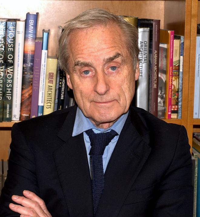 Sir Harold Evans at the Strand Bookstore in New York City to discuss his memoir, My Paper Chase: True Stories of Vanished Times.